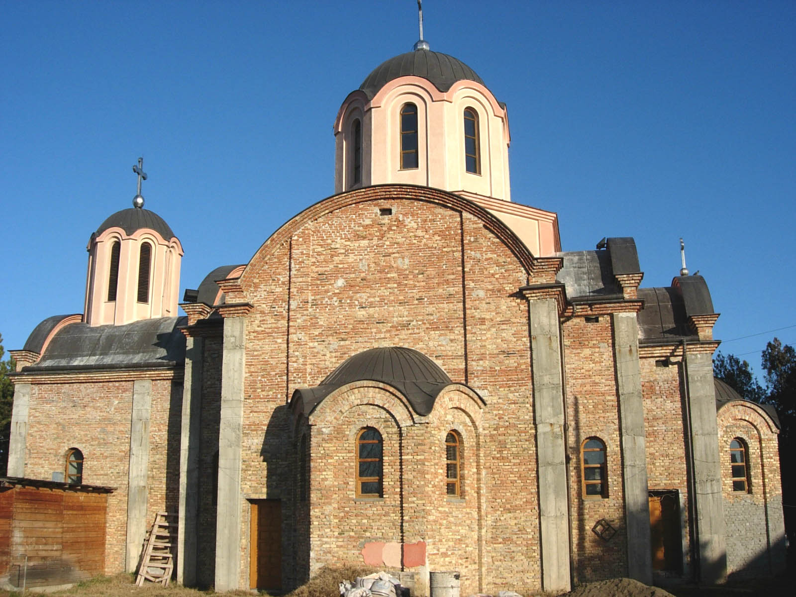 The new Orthodox church in Novi Banovci.